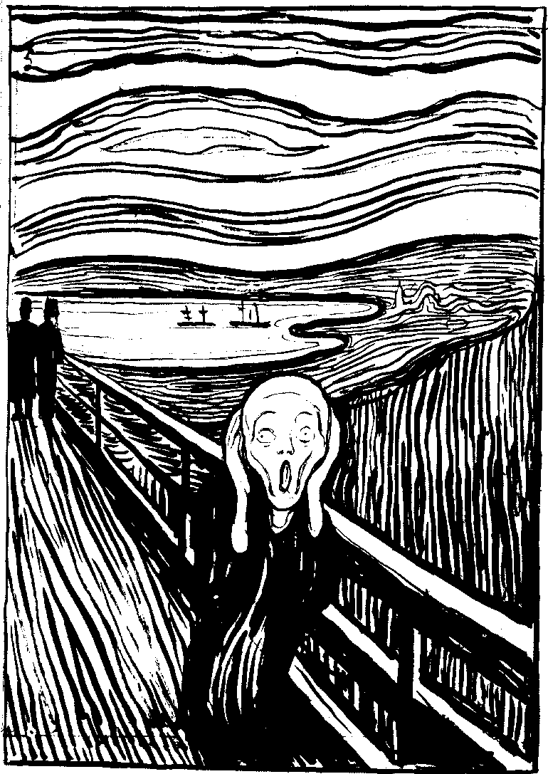 The Scream by artist Edvard Munch. Lithography, 1895.